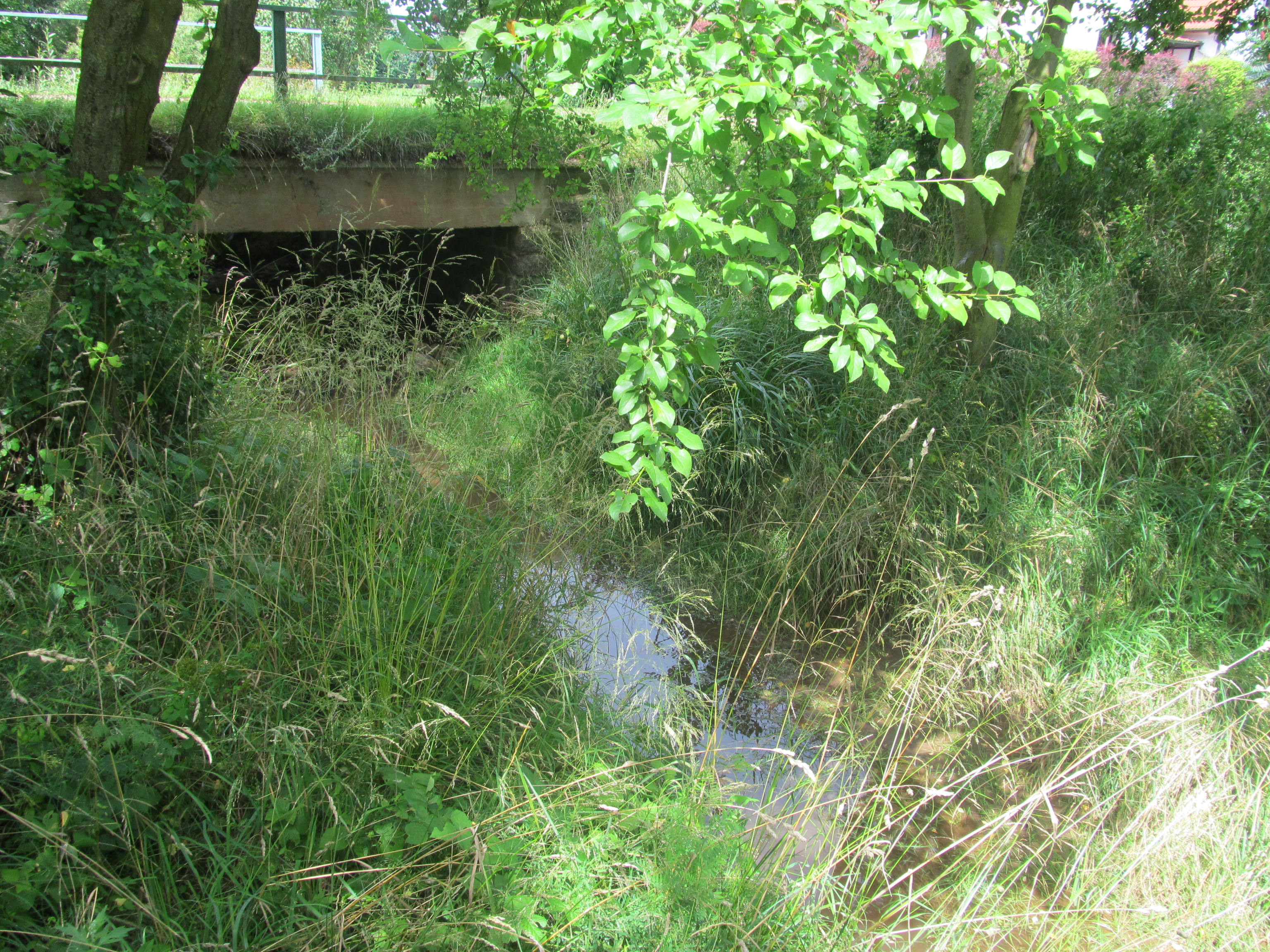 Očihovecký potok with the small bridge in Očihovec